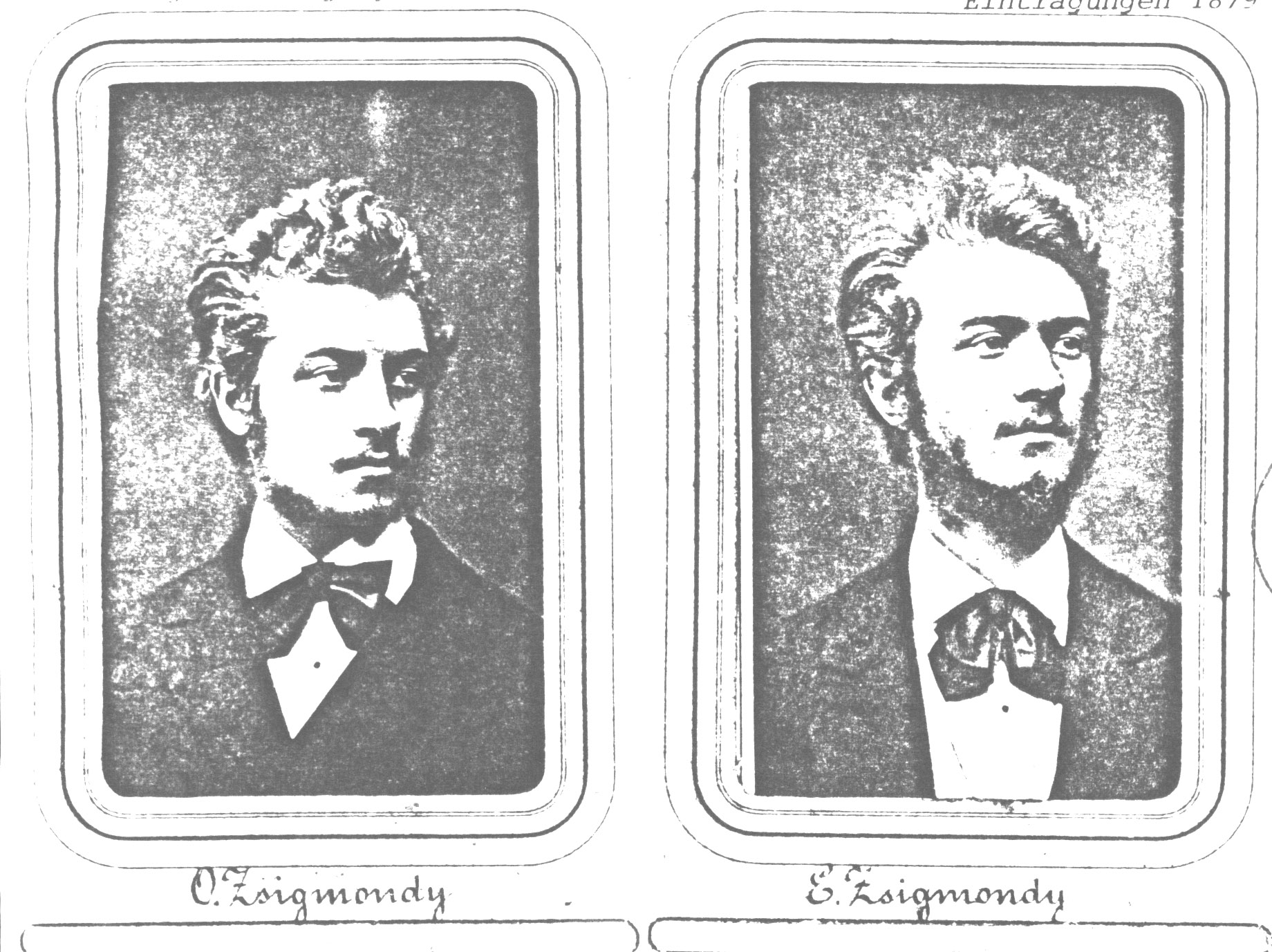 The brothers Emil and Otto Zsigmondy are famous alpinists.